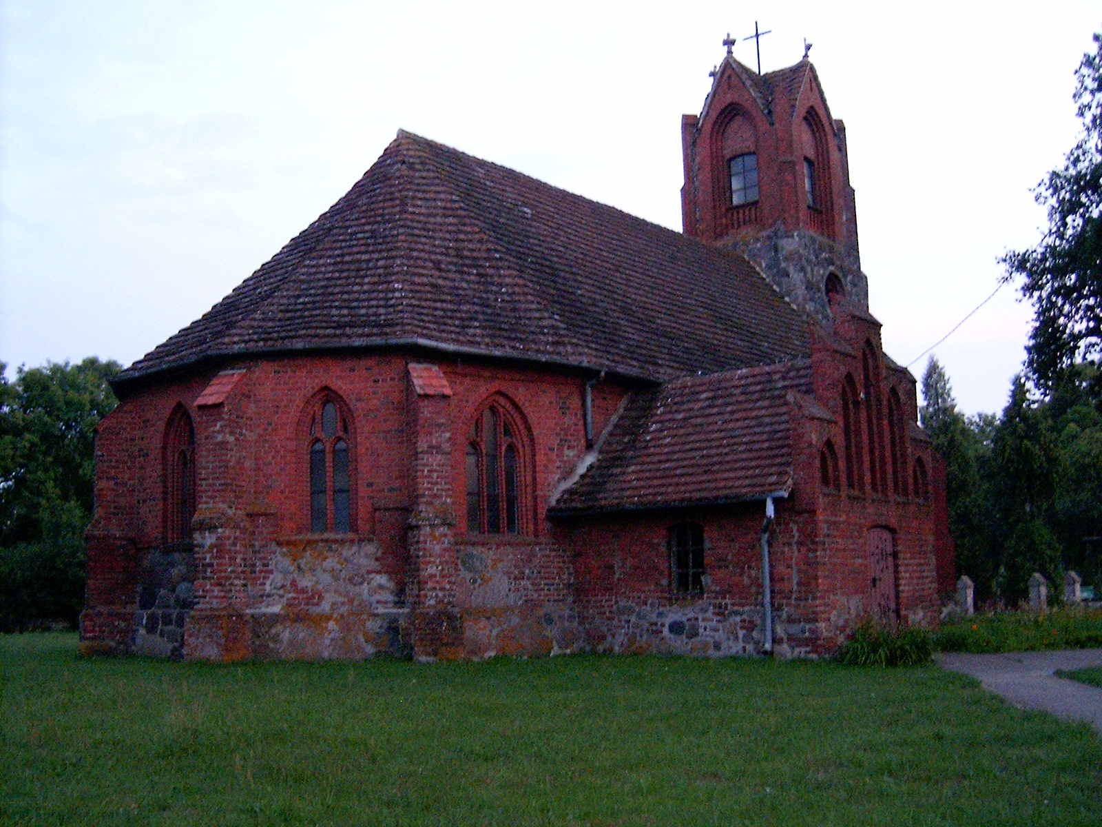 Christ the King church in Bielikowo, Poland